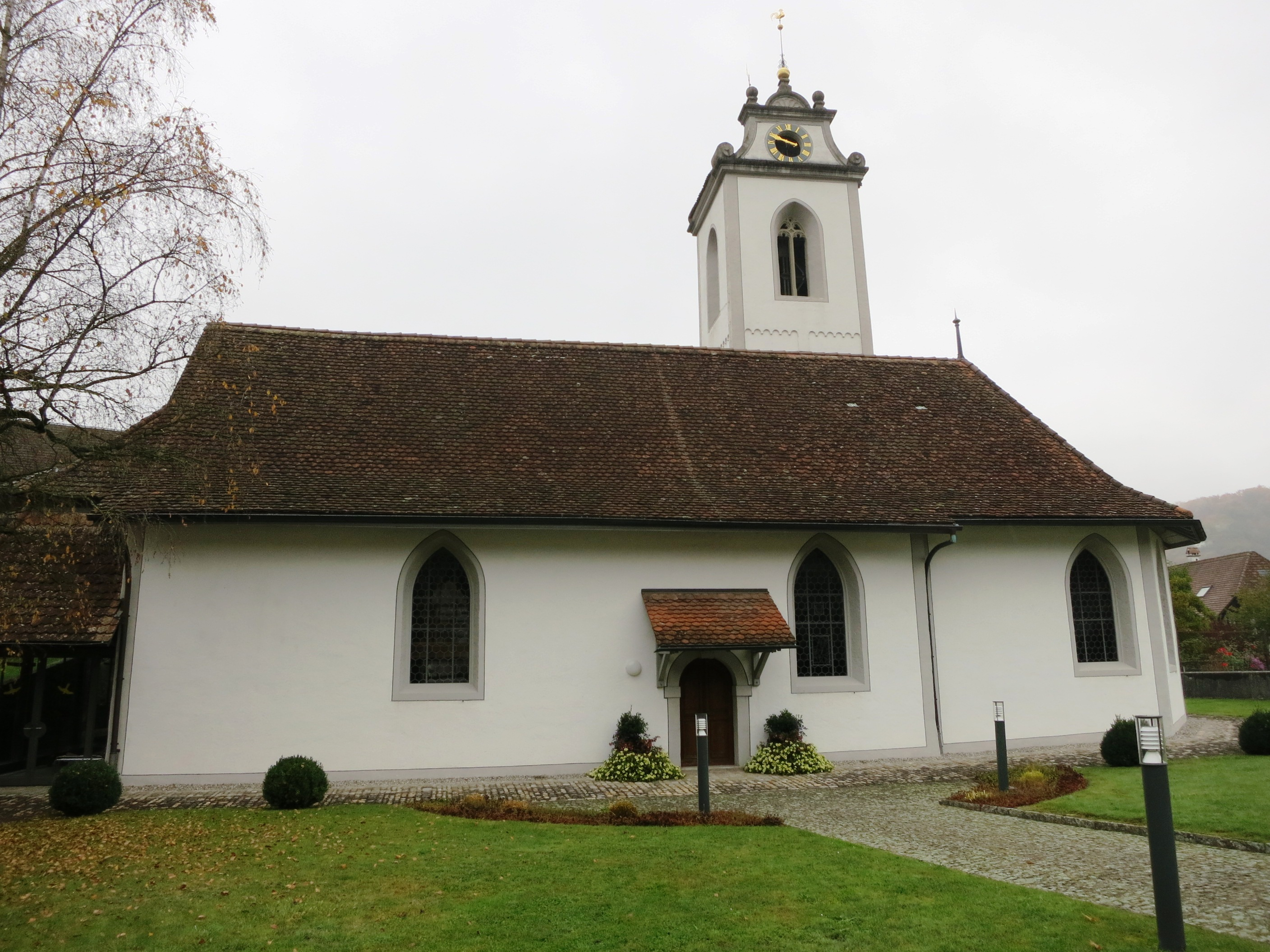 Reformierte Kirche Wynigen BE, Schweiz